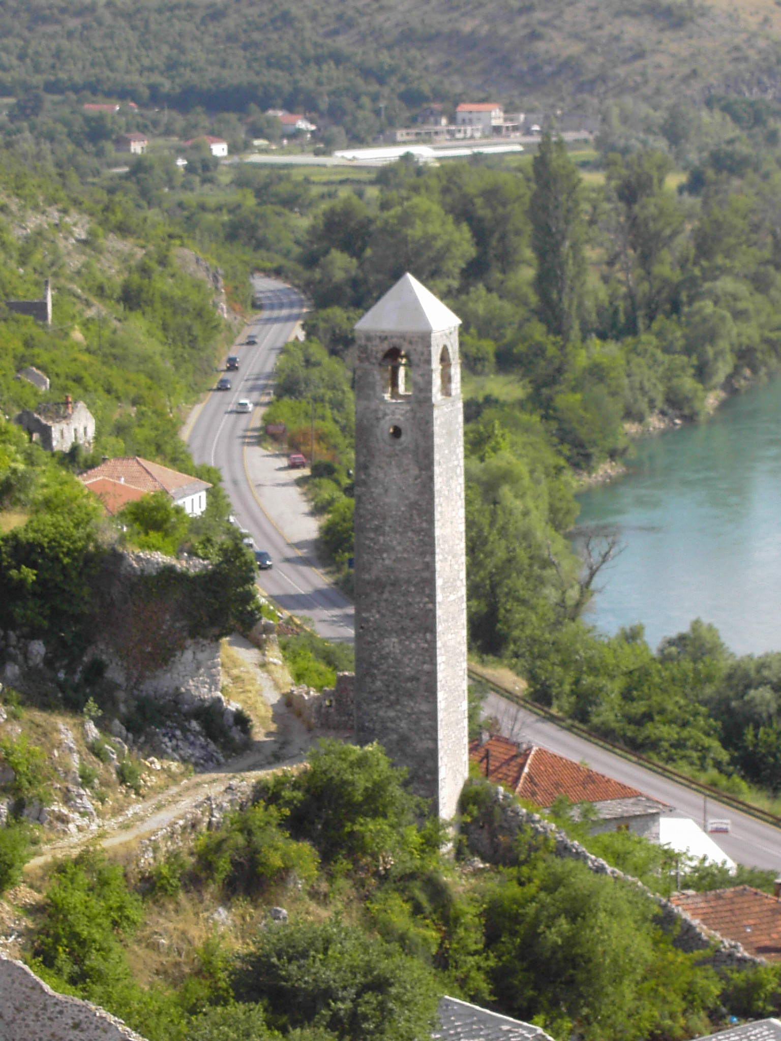 Počitelj watch tower